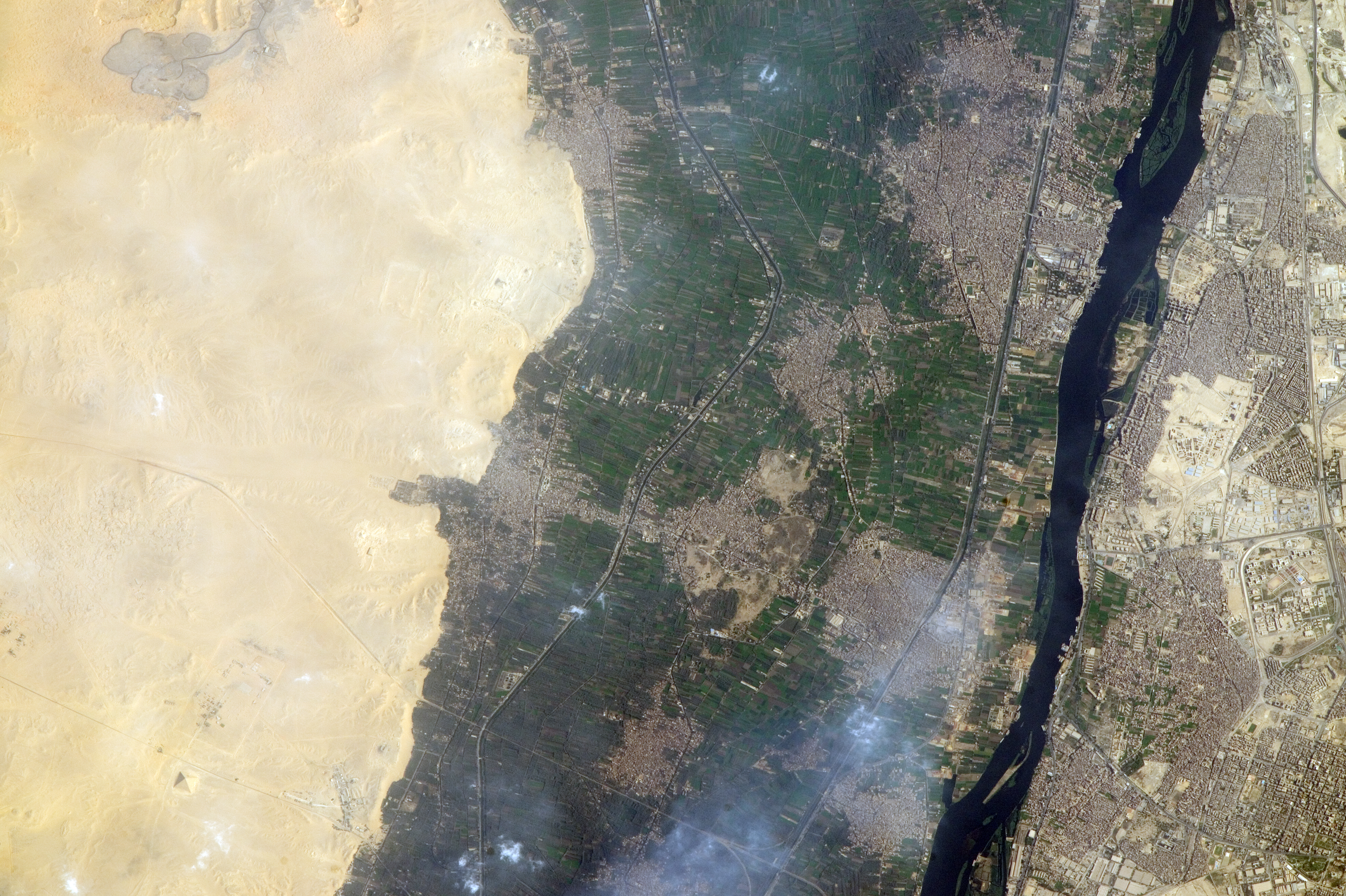 NASA astronaut Scott Kelly on the International Space Station May 29, 2015 tweeted this image out of an Earth observation as part of his Space Geo trivia contest. Scott tweeted this comment and clue: "#SpaceGeo 3 iconic man-made structures of this country are precisely aligned w the Constellation of #Orion. Name it!" Congratulations to @burwellian for correctly identifying this image as Egypt first. He will receive an autographed copy of this image when Scott returns to Earth in March 2016.